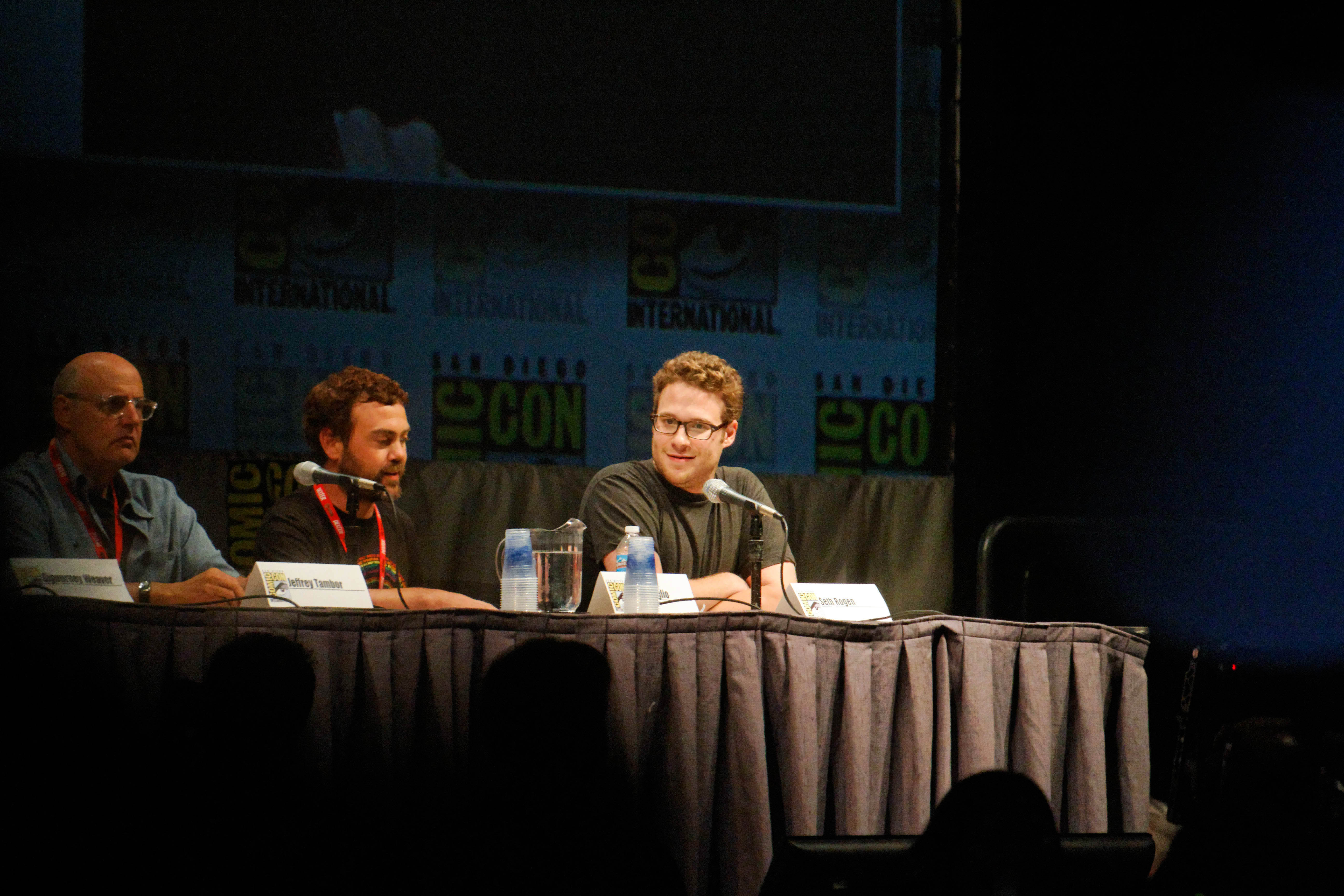 Jeffrey Tambor, Joe Lo Truglio, and Rogen at Comic-Con in 2010.